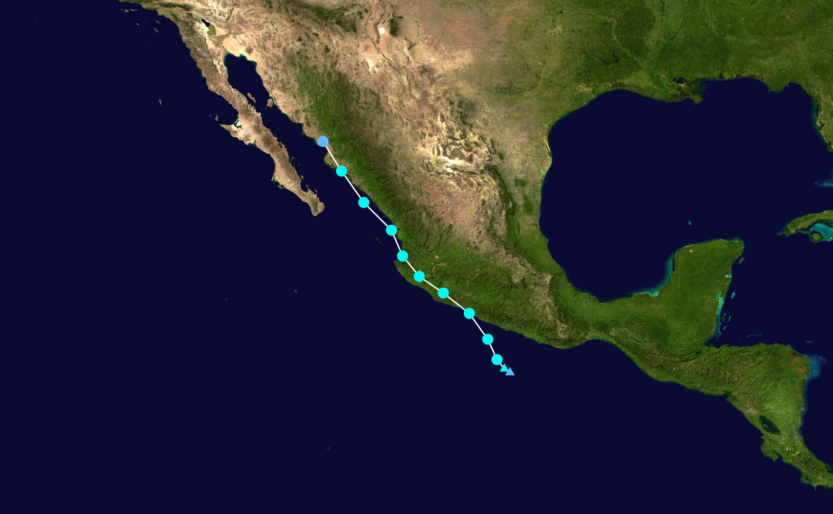 Track map of Tropical Storm Narda of the 2019 Pacific hurricane season. The points show the location of the storm at 6-hour intervals. The colour represents the storm's maximum sustained wind speeds as classified in the Saffir–Simpson scale (see below), and the shape of the data points represent the nature of the storm, according to the legend below. Saffir–Simpson scale Tropical depression≤38 mph≤62 km/h Category 3111–129 mph178–208 km/h Tropical storm39–73 mph63–118 km/h Category 4130–156 mph209–251 km/h Category 174–95 mph119–153 km/h Category 5≥157 mph≥252 km/h Category 296–110 mph154–177 km/h Unknown Storm type Tropical cyclone Subtropical cyclone Extratropical cyclone / Remnant low / Tropical disturbance / Monsoon depression